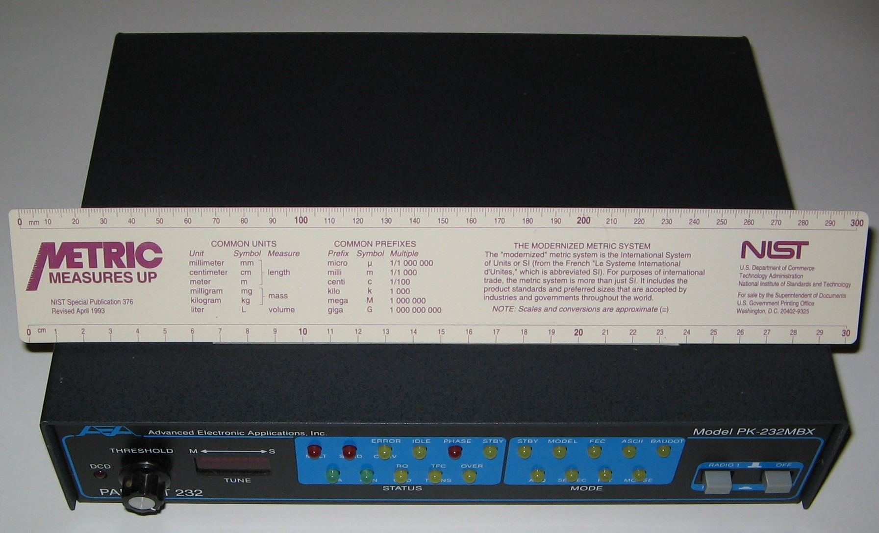 Terminal node controller, Model Pk-232MBX, made by Advanced Electronic Applications Inc. about 1991.